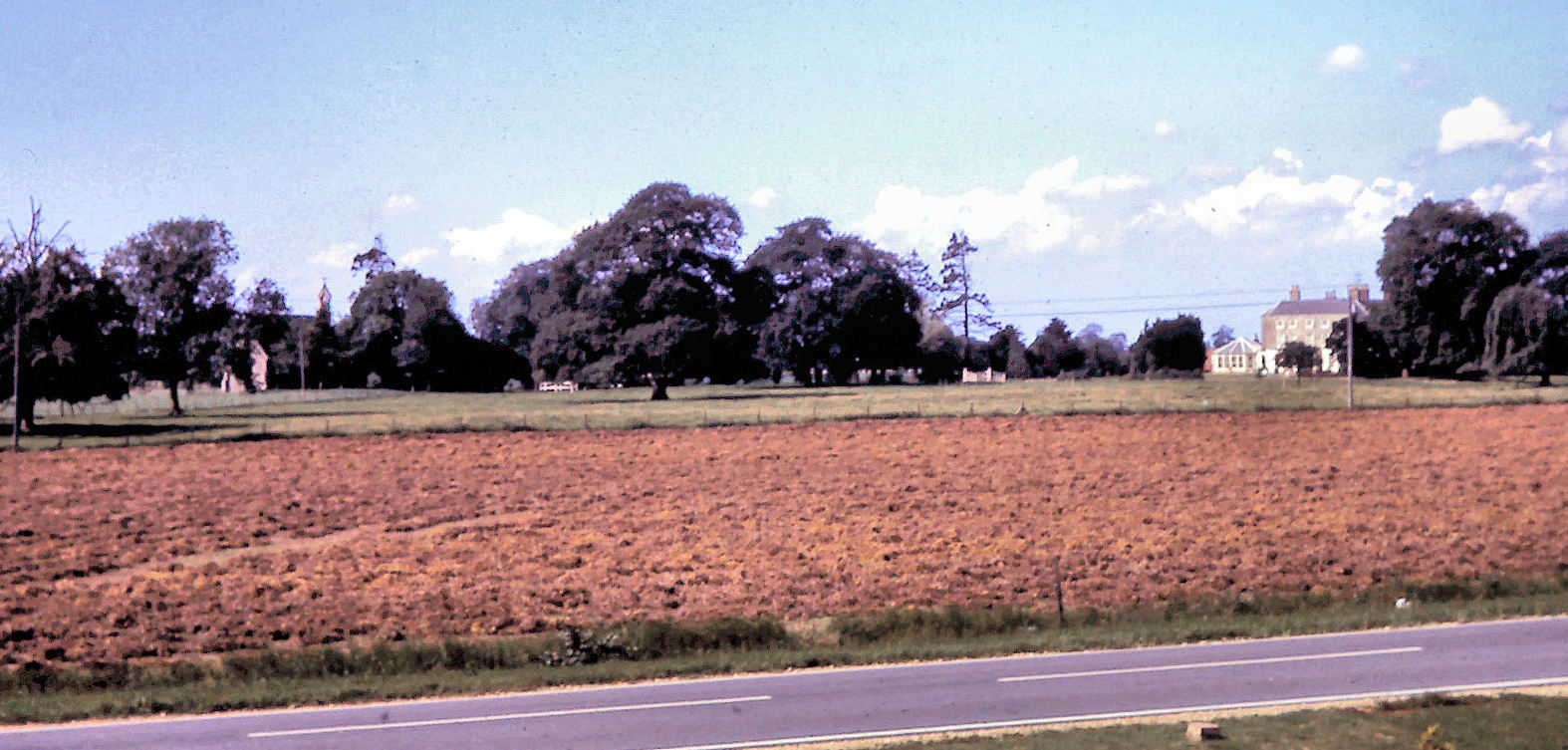 Brothertoft Church Halland Park